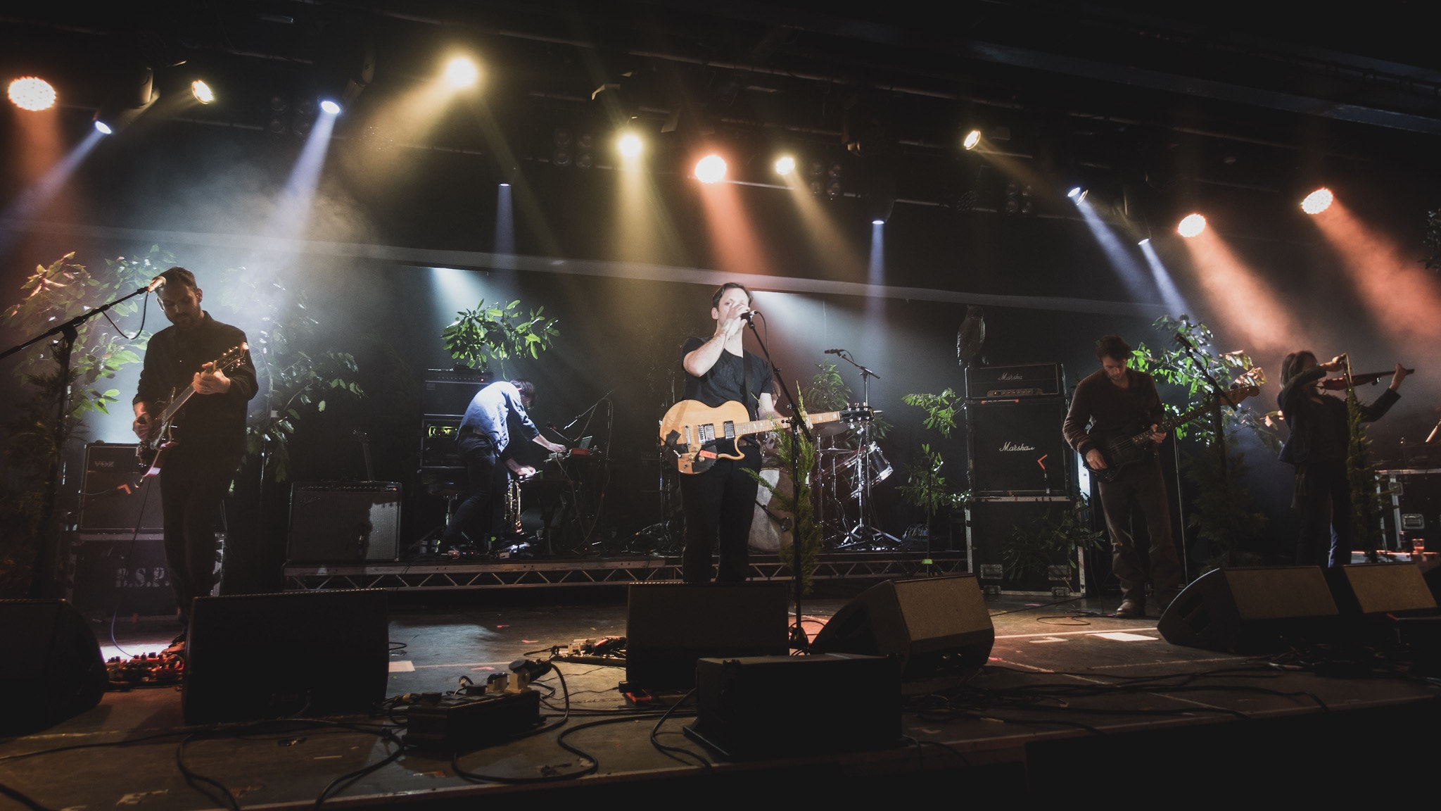 Rockaway Beach: British Sea Power